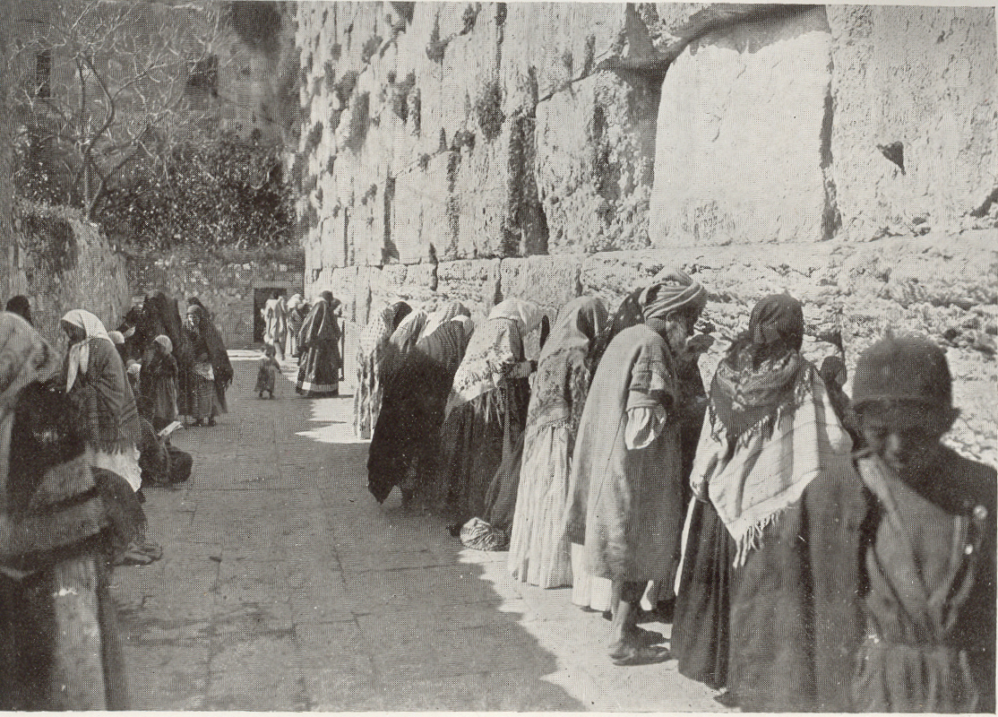 Western (Wailing) Wall, Jerusalem, circa 1910.